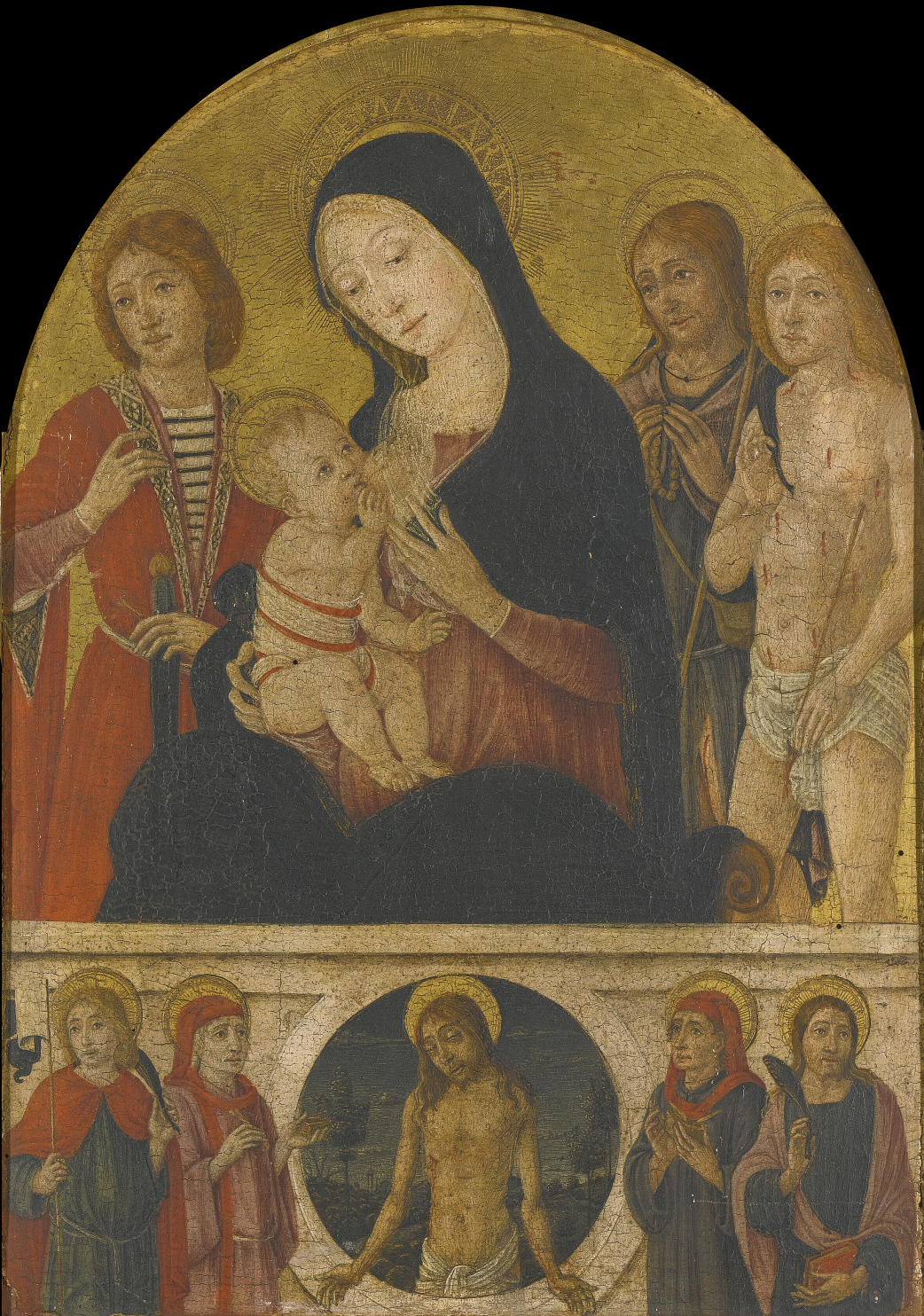 The Madonna and Child with Saints Julian the Hospitaler, Roch and Sebastian, below the dead Christ set in a landscape, flanked by saints Cosmas, Damian and two other male saints. Tempera on panel, gold ground, arched top, 44 x 31 cm